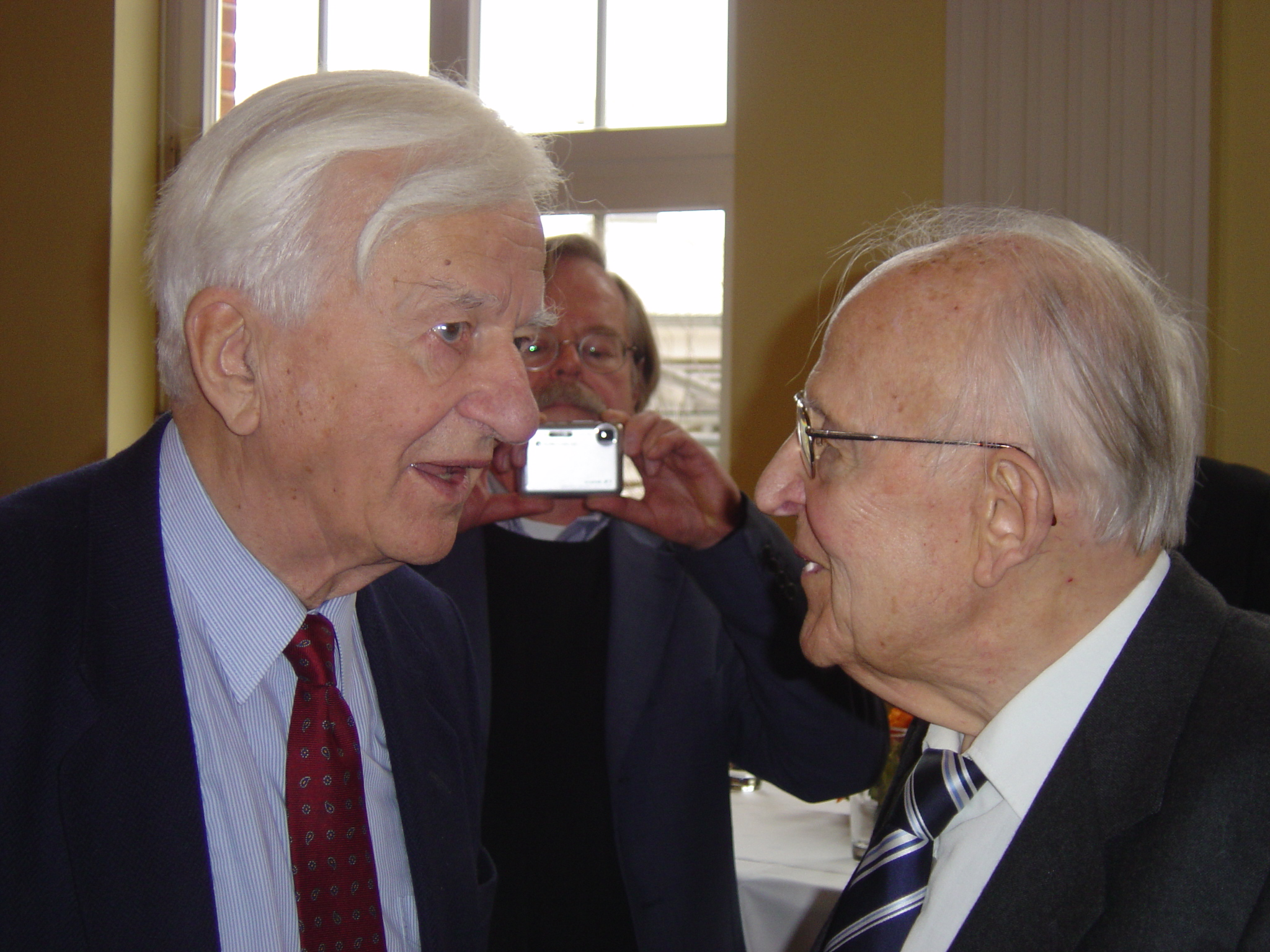 Werner Krusche and Richard von Weizsäcker 2007 at the function on the 90th Birthday of Werner Krusche